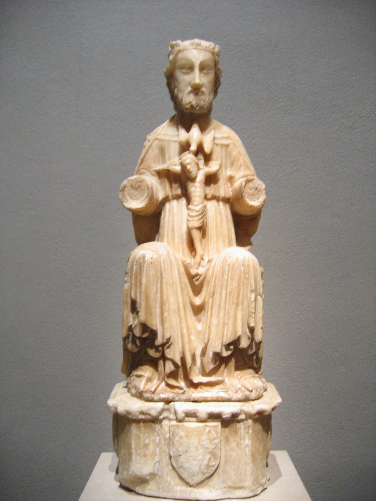 The Holy Trinity, c. 1300 - 1350. English or Spanish. Alabaster. National Gallery of Art, Washington, D.C.